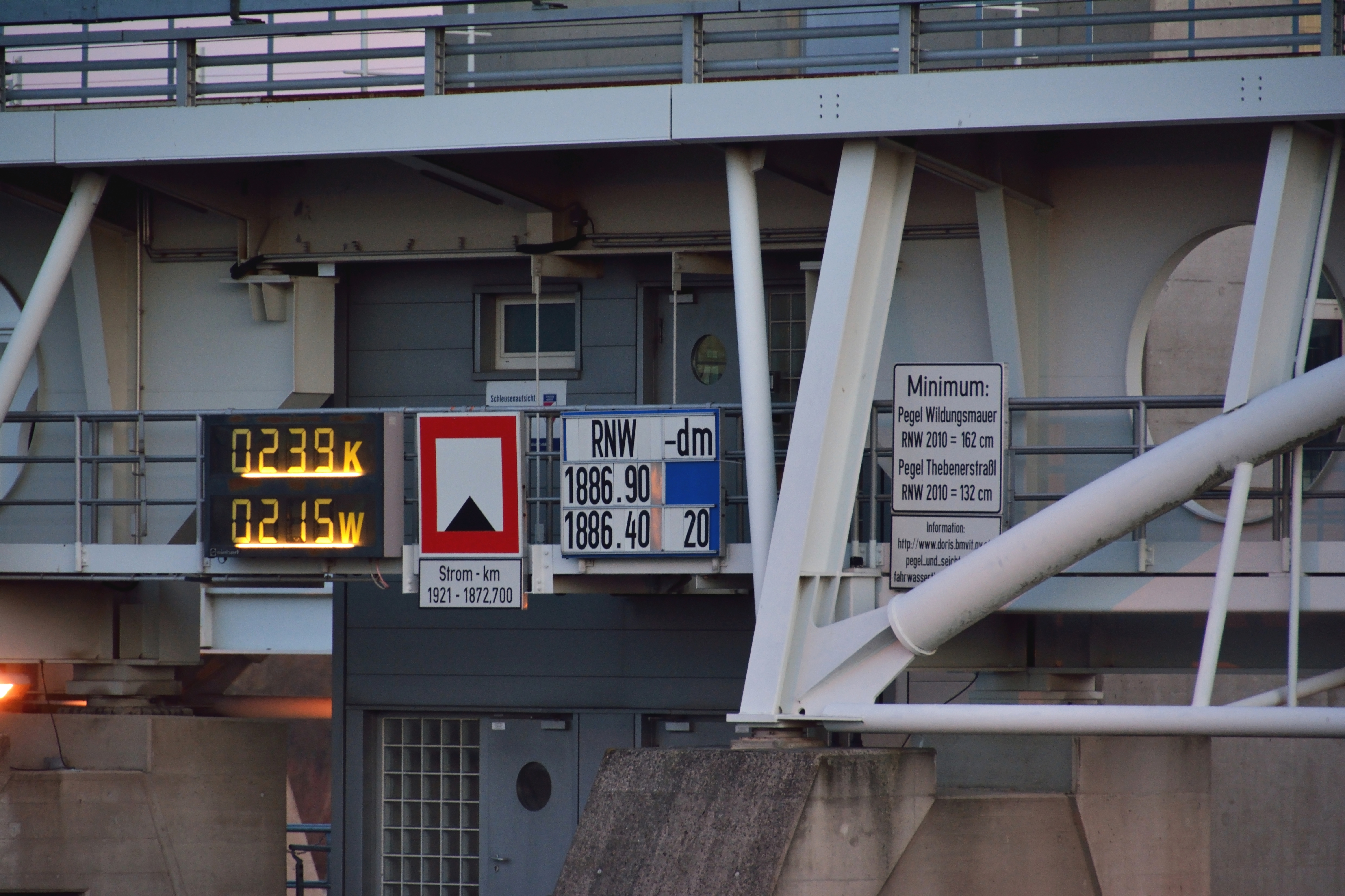 Display of information for shipping at Kraftwerk Freudenau, part of DoRIS (Donau River Information Services), Vienna